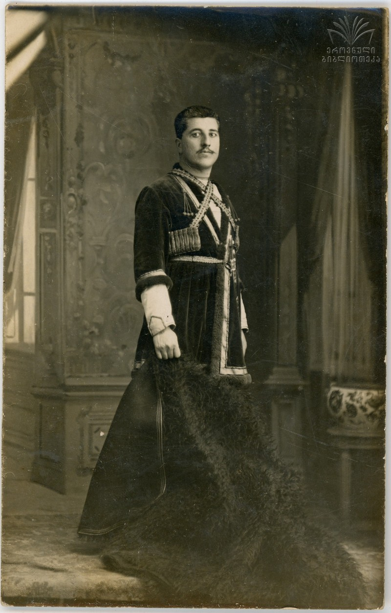 Vlasa Mgeladze